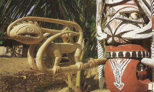 two Woodmalangansculptures carved by Thomas Reichstein in Newireland. a dancing piece and a Nitmask